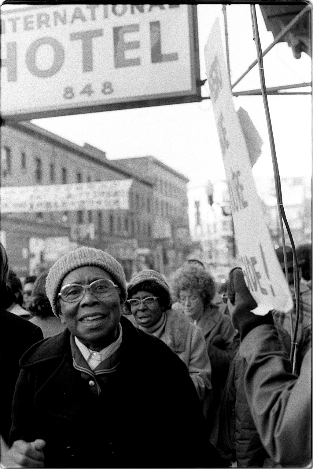 Members of Peoples Temple Christine Bates, Lucille Taylor and Betty Moore join hundreds at a protest at the International Hotel on 848 Kearny Street January 1977. Photo by Nancy Wong